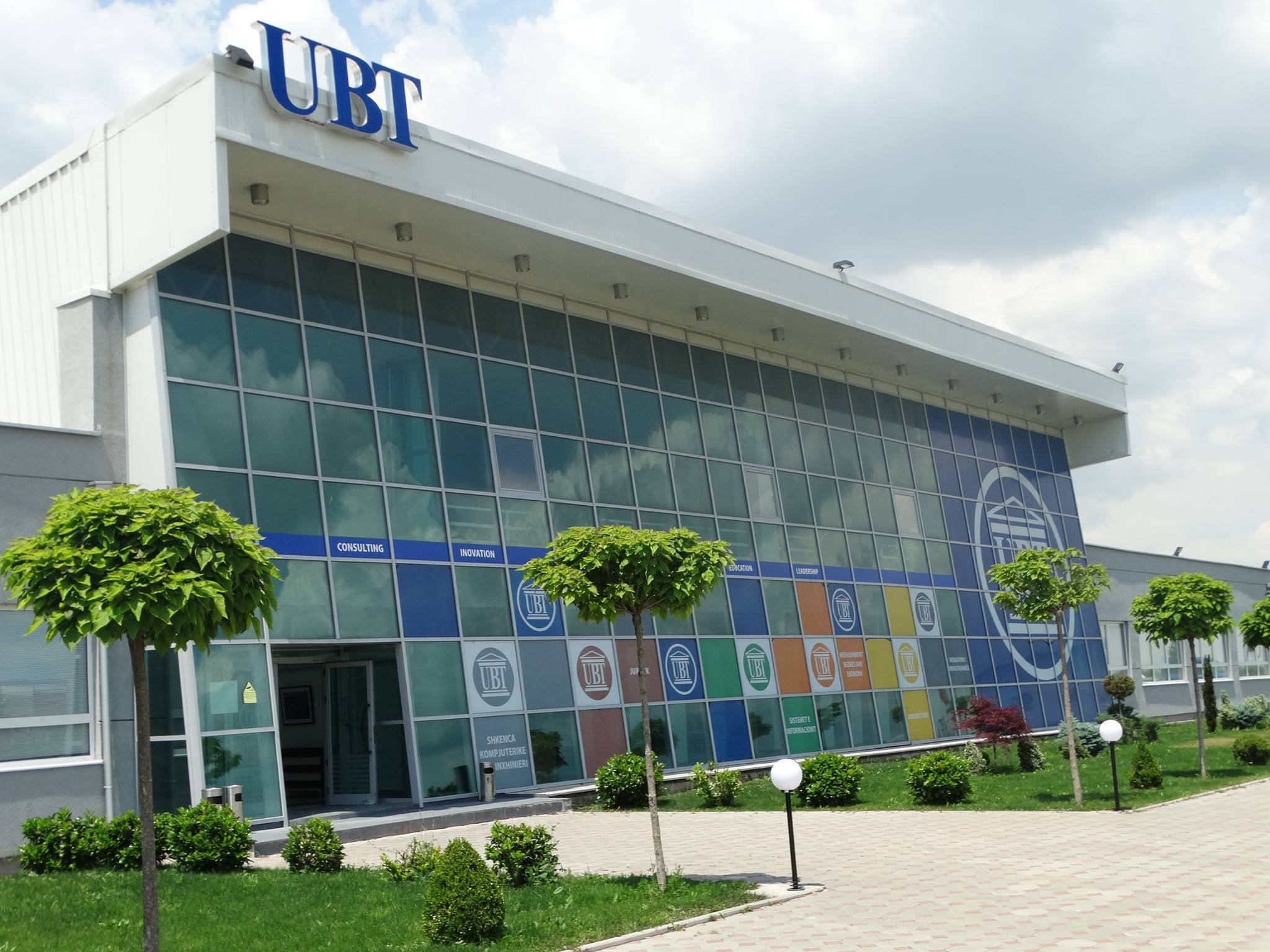 UBT Campus at Lipjan